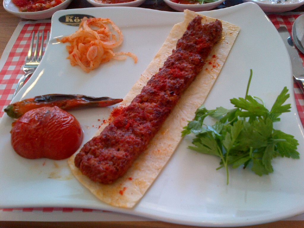 Adana kebap in a kebap restaurant ("kebapçı") in Ankara, Turkey. Notice the extra "pul" and red pepper on the meat.